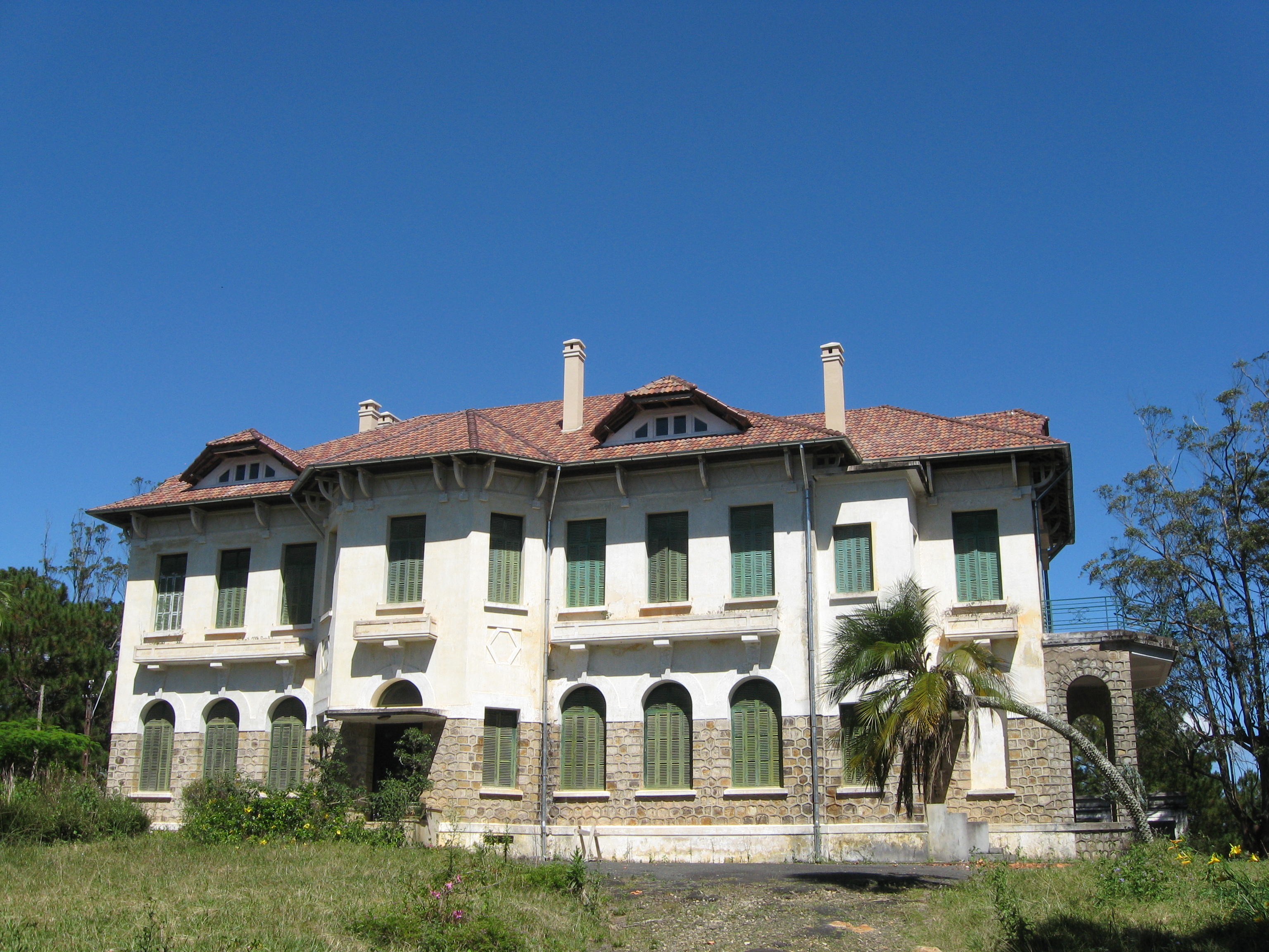 Palace I, Da Lat